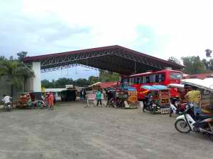 This is a bus terminal of Liloy.